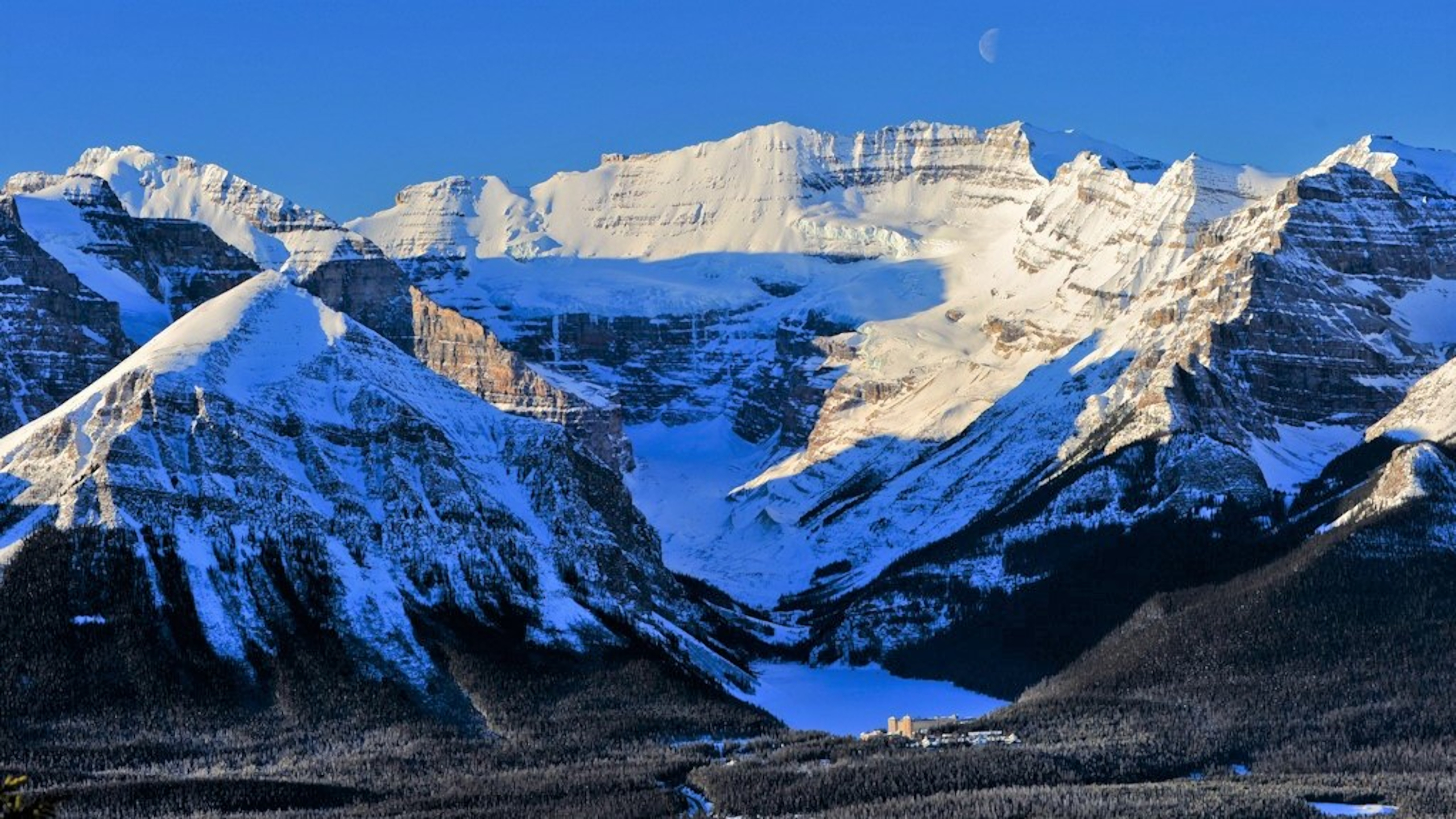 Lake Louise area from Ski Louise, with Fairmont W:Chateau Lake Louise just right of centre bottom. This photo is cropped 16:9 and should be large enough that it can be used as Apple Wallpaper or PC Background.